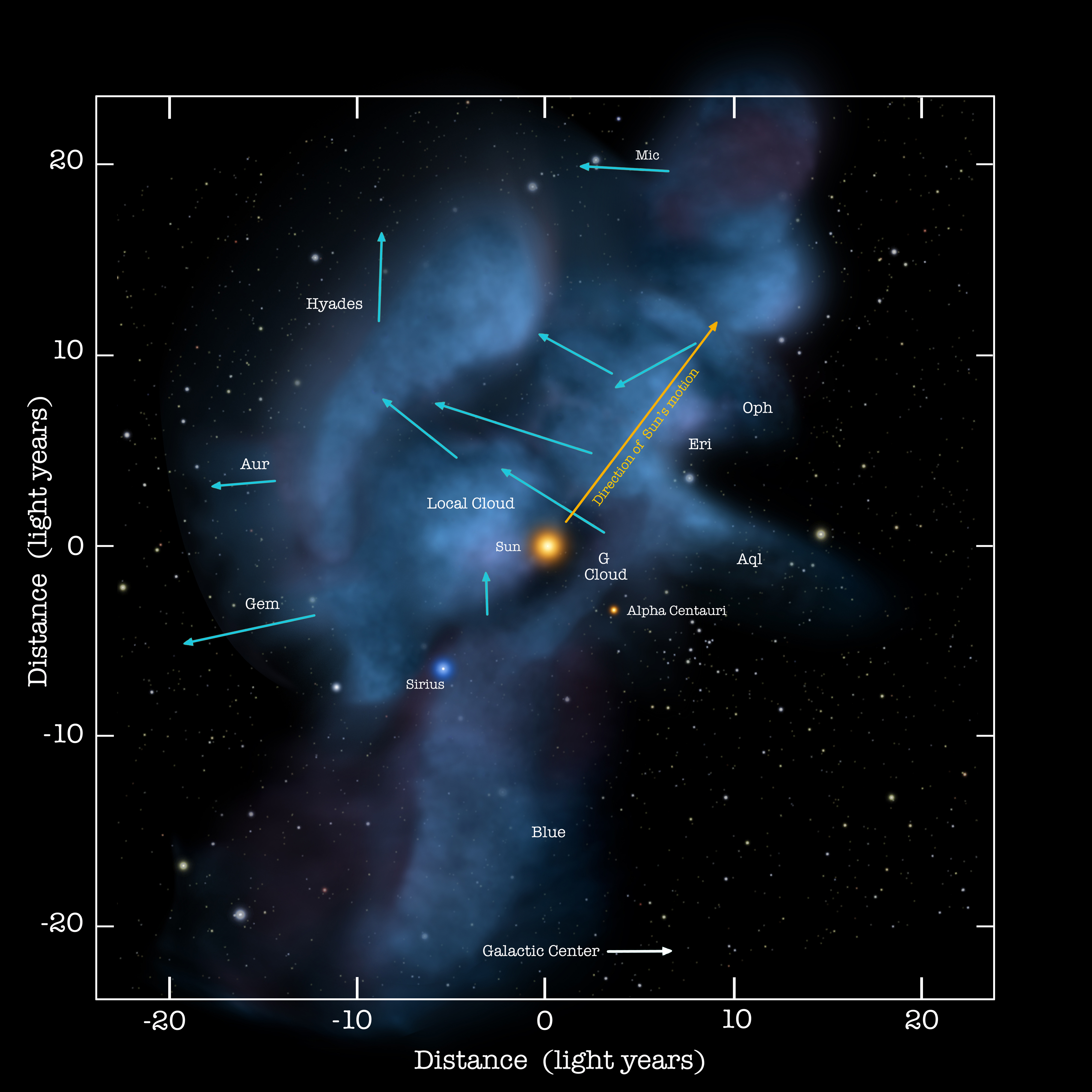 Our solar journey through space is carrying us through a cluster of very-low-density interstellar clouds. Right now the Sun is inside of a cloud (Local cloud) that is so tenuous that the interstellar gas detected by IBEX is as sparse as a handful of air stretched over a column that is hundreds of light-years long. These clouds are identified by their motions, indicated in this graphic with blue arrows.